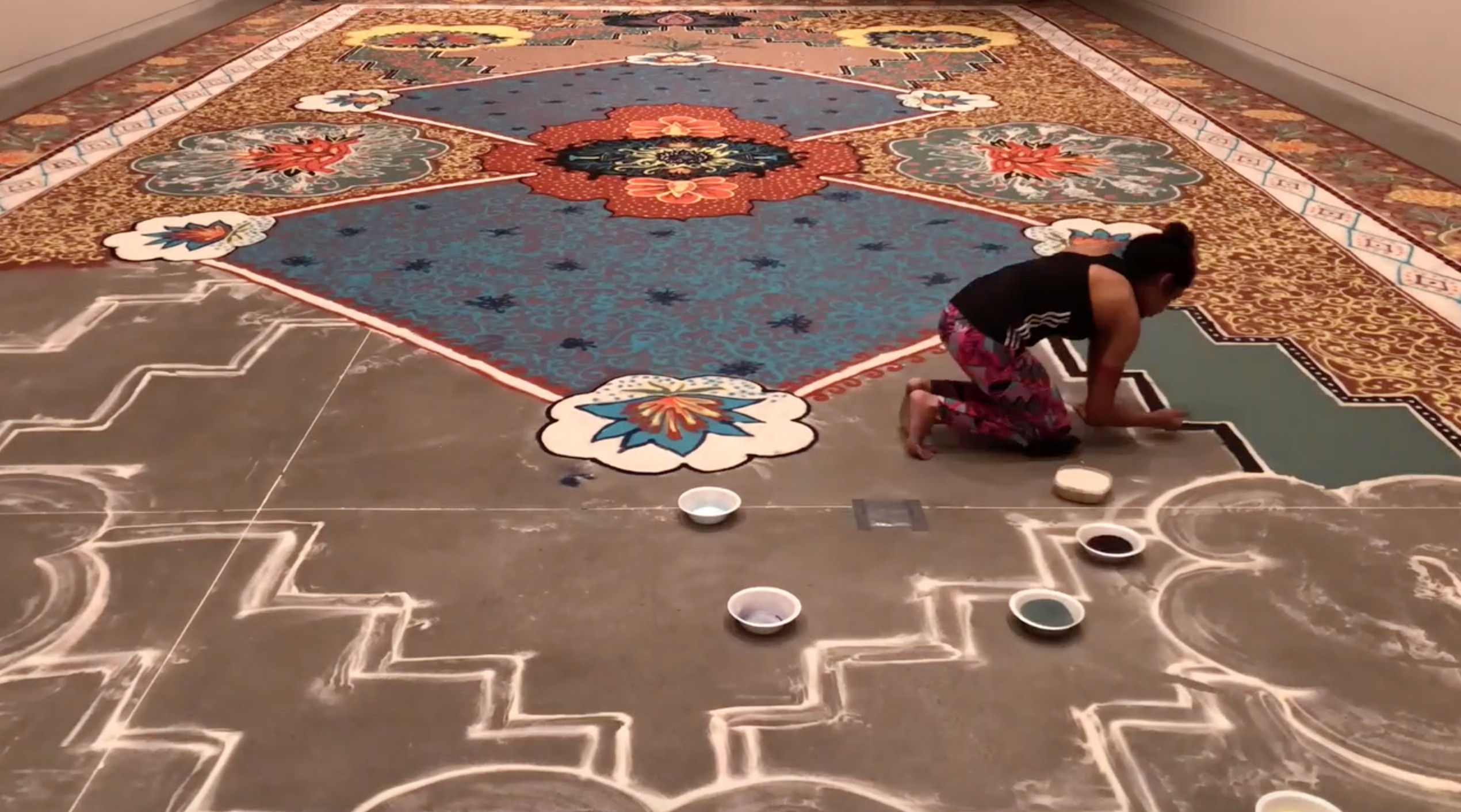 This sand carpet is a combination of patterns from the Middle East, India, and Portugal. The materials were borrowed from the dunes of the Middle East along with natural dyes from India.